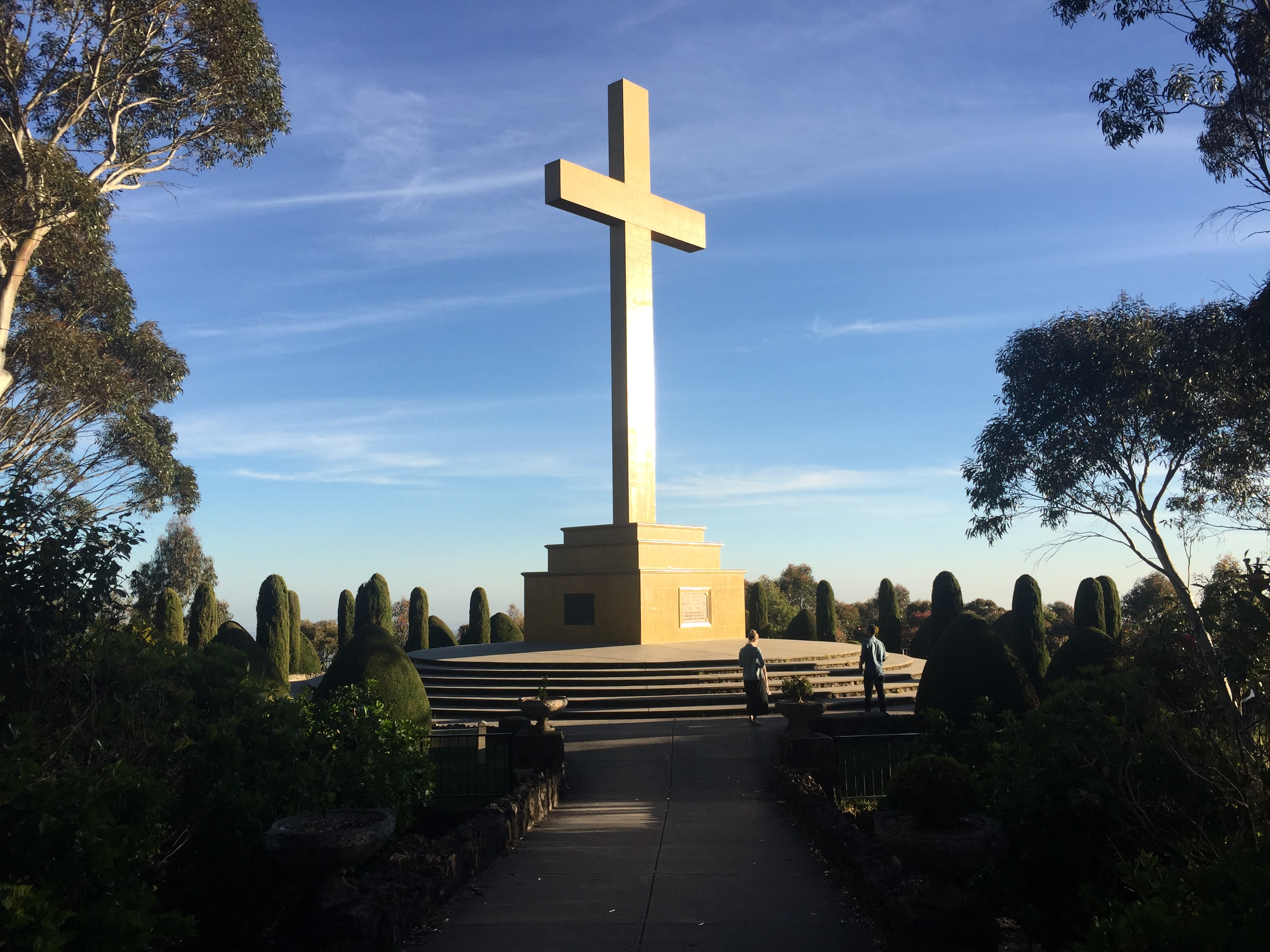 The christian cross on mount macedon